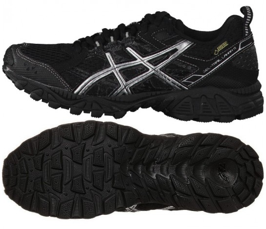 Trail Running Shoes Asics Gel Trail Lahar 5 GTX